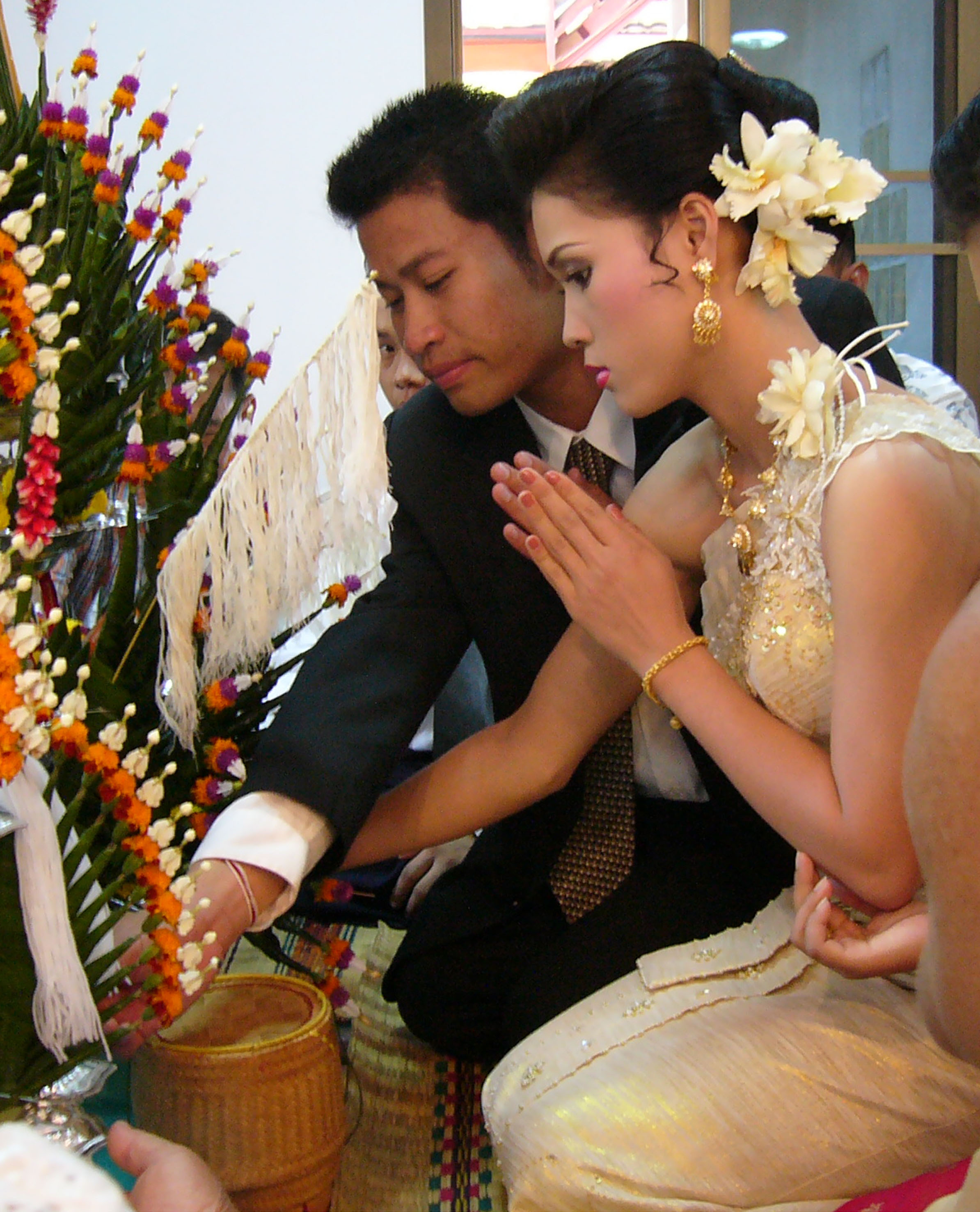 Part of a Marriage ceremony in Thailand, 2007.